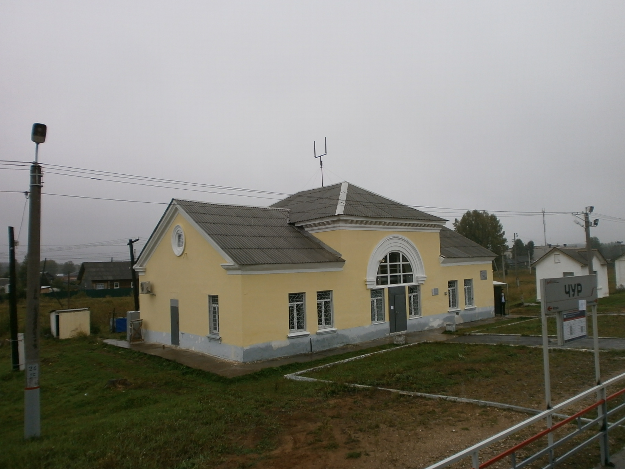 Chur train station on Izhevsk — Balezino railway, Yakshur-Bodyinsky District, Udmurtia Удмурт: Чур станцилэн вокзалэз, Ижысен Балезиноозь чугун сюрес, Якшур-Бӧдья ёрос, Удмуртия